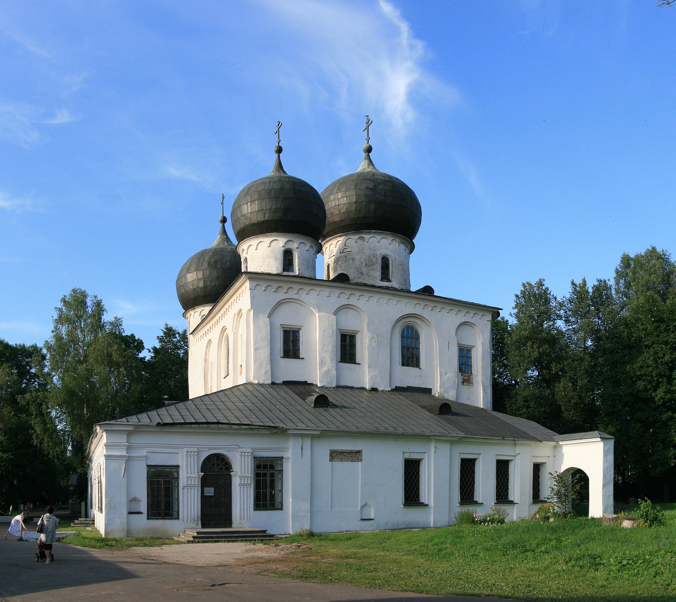 Cathedral of the Nativity of the Theotokos, Antoniev Monastery, Veliky Novgorod